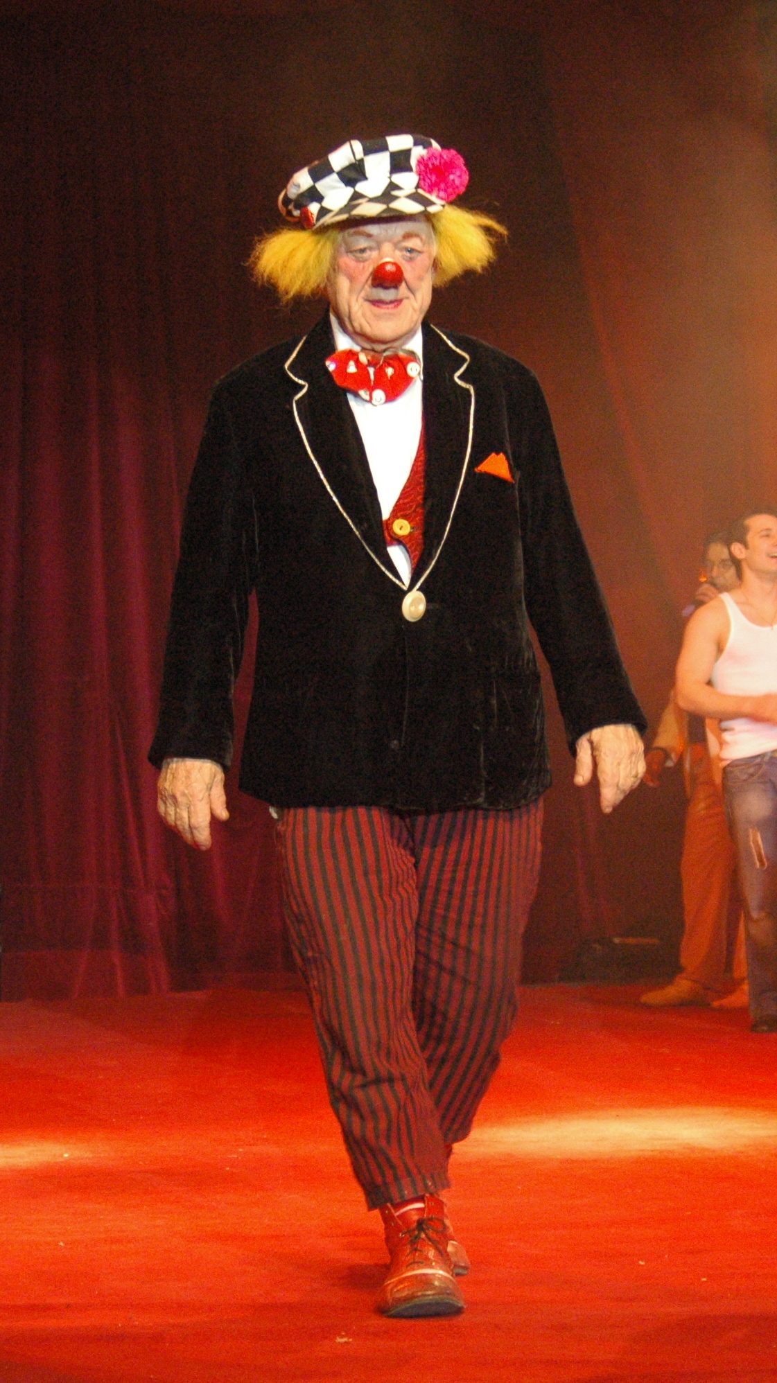 Oleg Popow performing with the Russian State Circus in Worms, Germany.